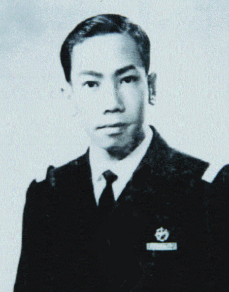 Hoang Co Minh as a naval officer